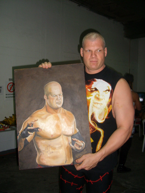 Kane with a portrait done by a fanatic. Backstage at the Colosseum General Rumiñahui in Quito, Ecuador, during SmackDown/ECW Road to Wrestlemania Tour 2008, on 12 February.